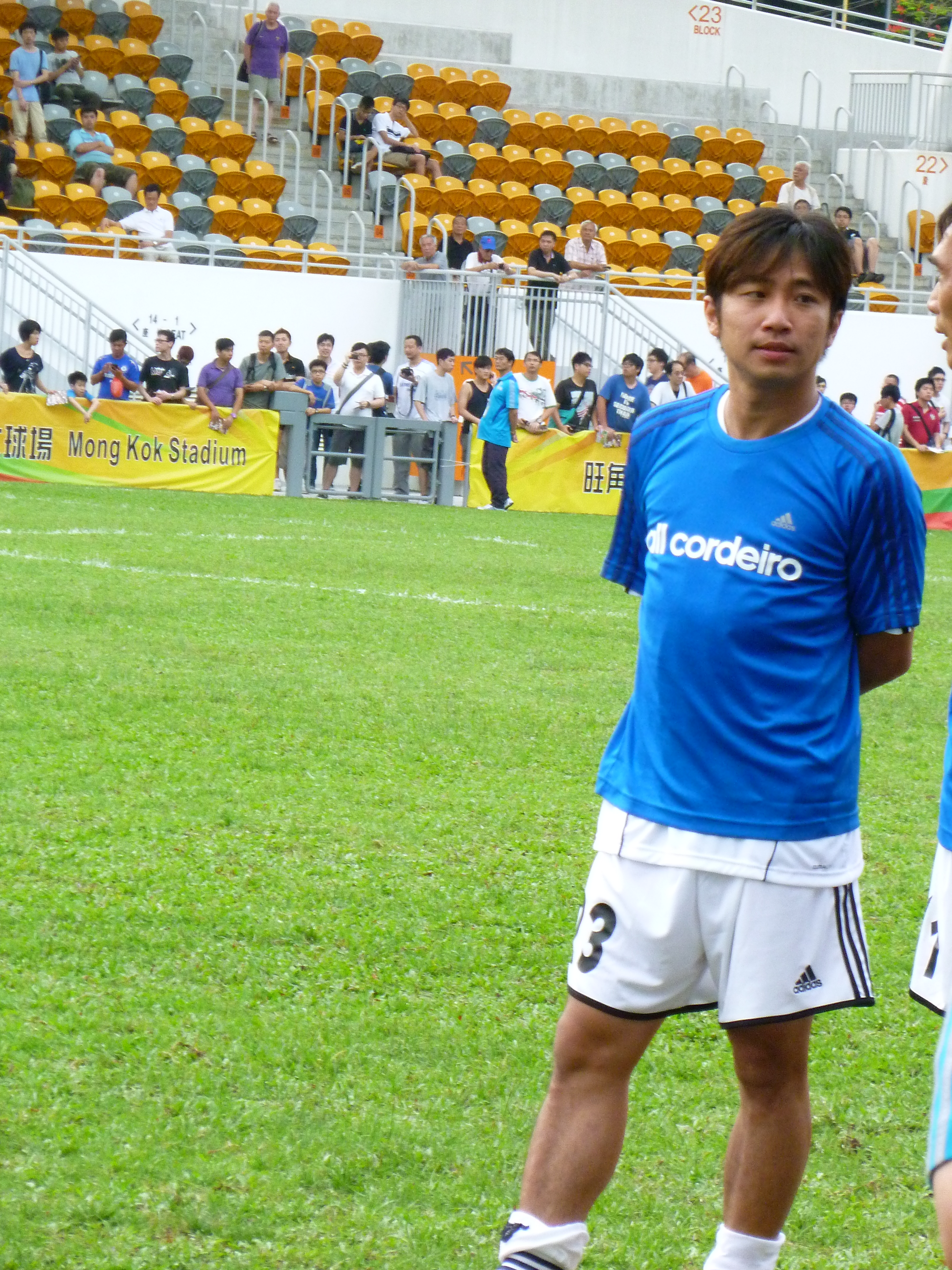 Lee Sze Ming (3 June 2012 testimonial match of Cristiano Cordeiro; Mong Kok Stadium, Hong Kong)